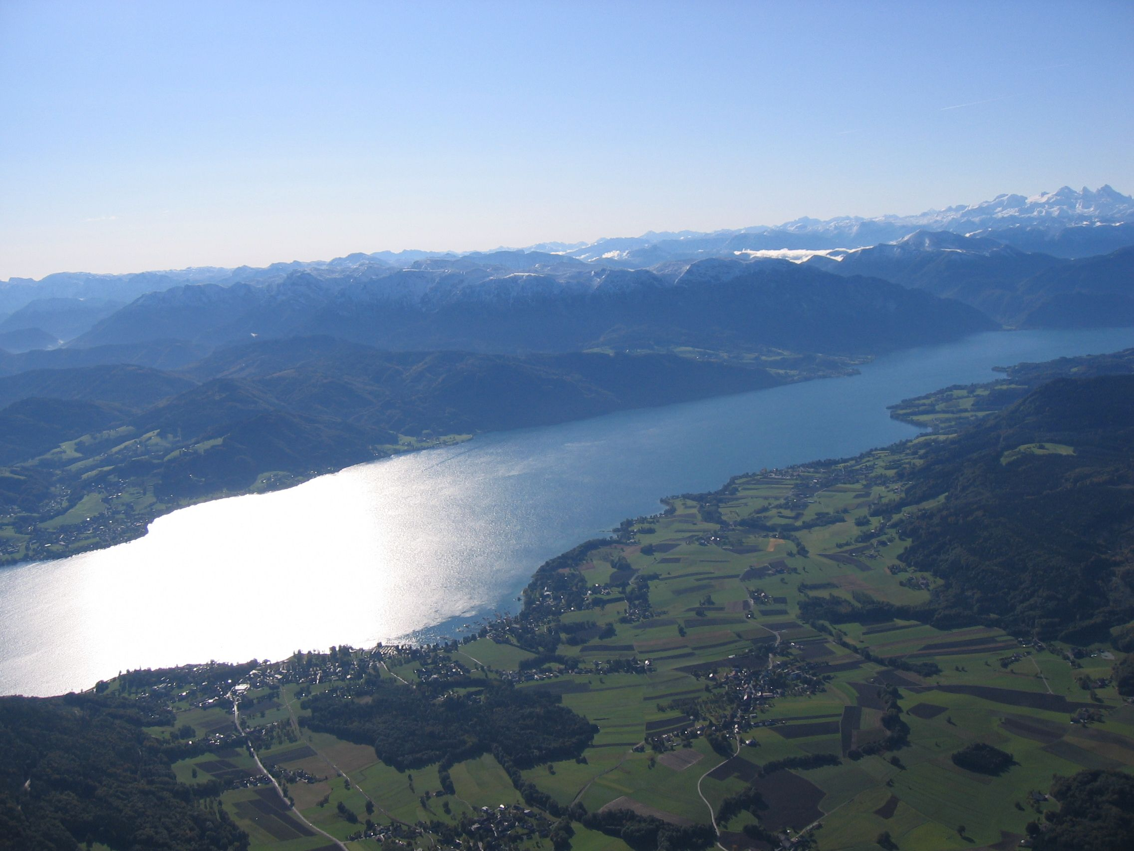 The Attersee seen from ballon